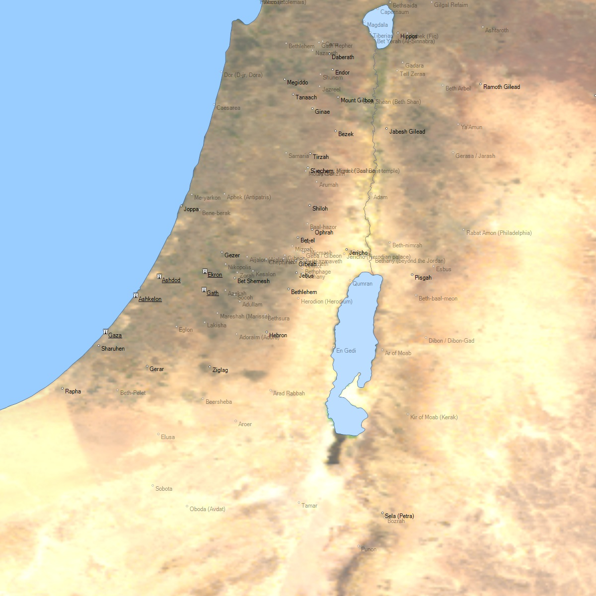 extended map of the Philistine Pentapolis with other placemarks that could be shown on the normal map File:Philistines pentapolis.jpg